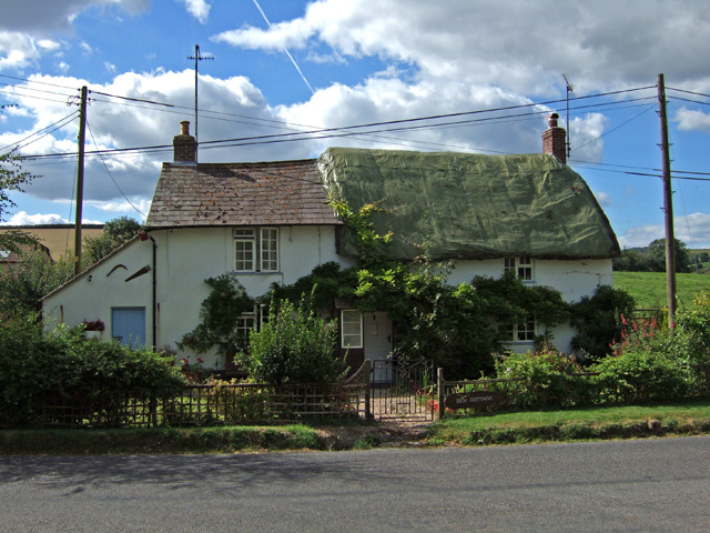 Box Cottage Alton Pancras This is a Grade II Listed cottage, originating possibly in the C17, with the southern portion to the left rebuilt in the C19. The walls are rendered, probably of cob to the right, and flint and brick to the left.